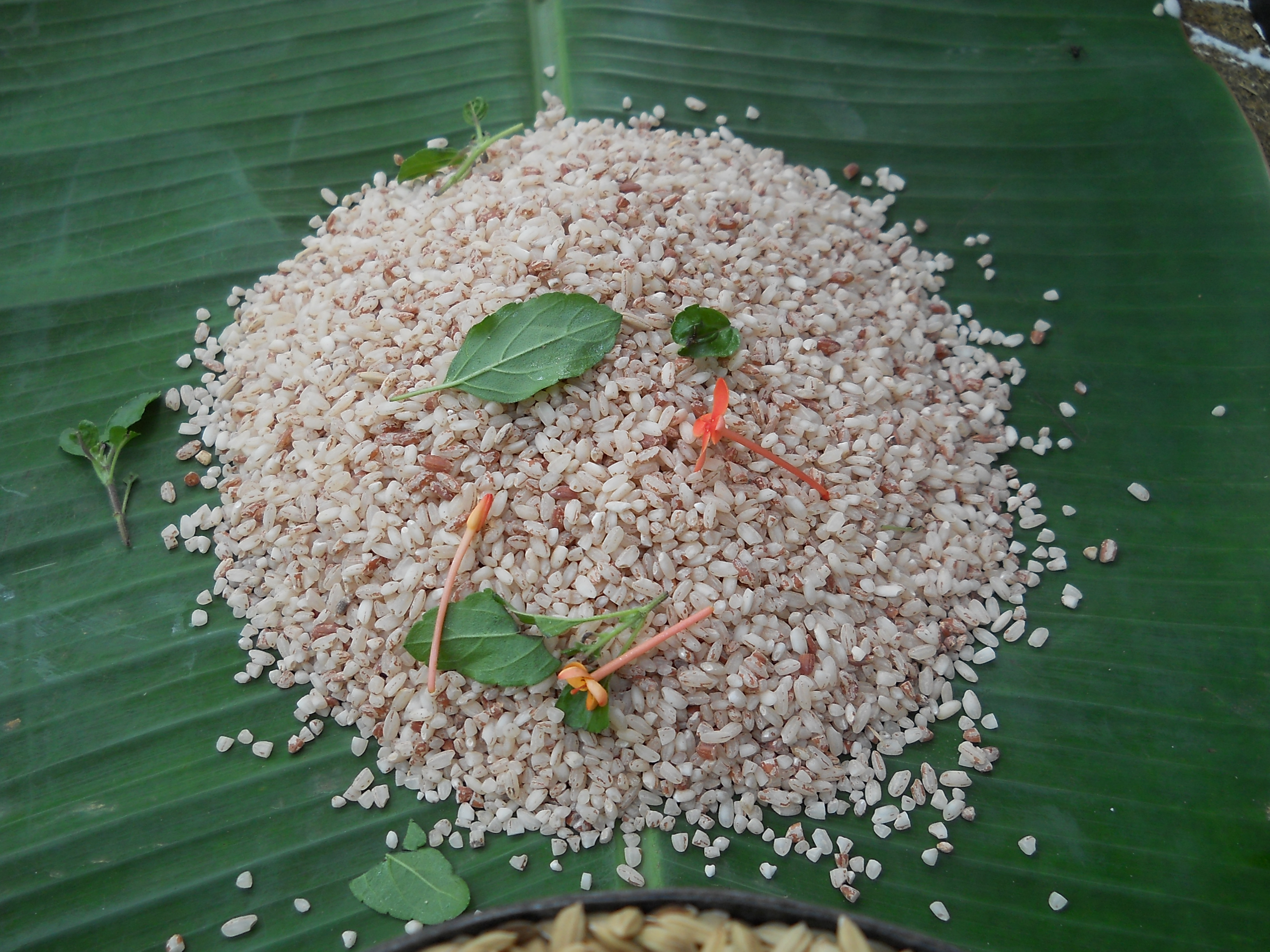 പൂരപ്പറ, ചൂരക്കോട്ടുകാവ, തൃശ്ശൂര്‍ പൂരം This media file is uploaded with Malayalam loves Wikimedia event - 2.